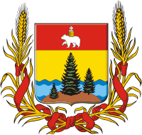 Coat of Arms of Elovsky rayon, Perm krai, Russia, 2005